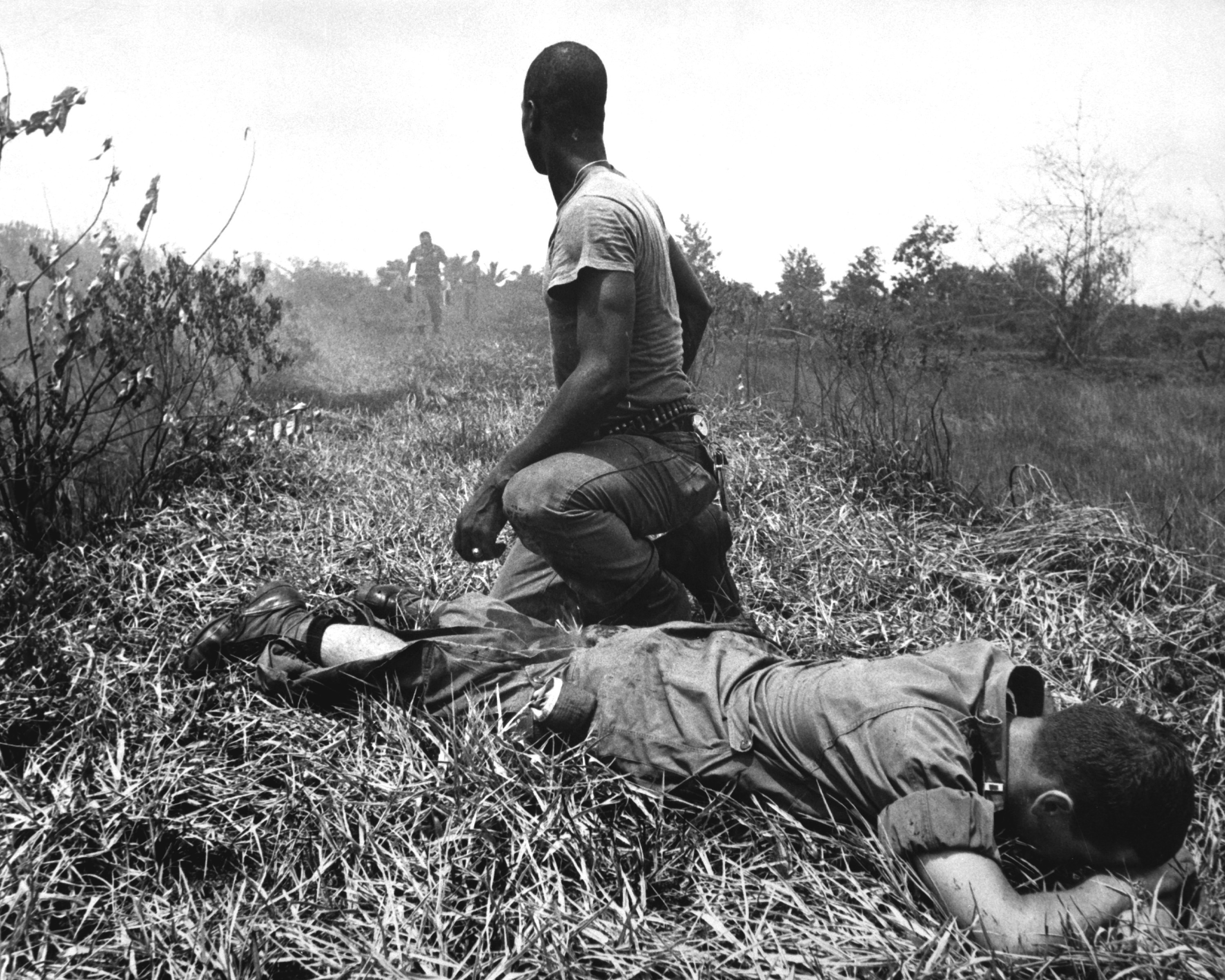 A young American lieutenant, his leg burned by an exploding Viet Cong white phosphorus booby trap, is treated by a medic.